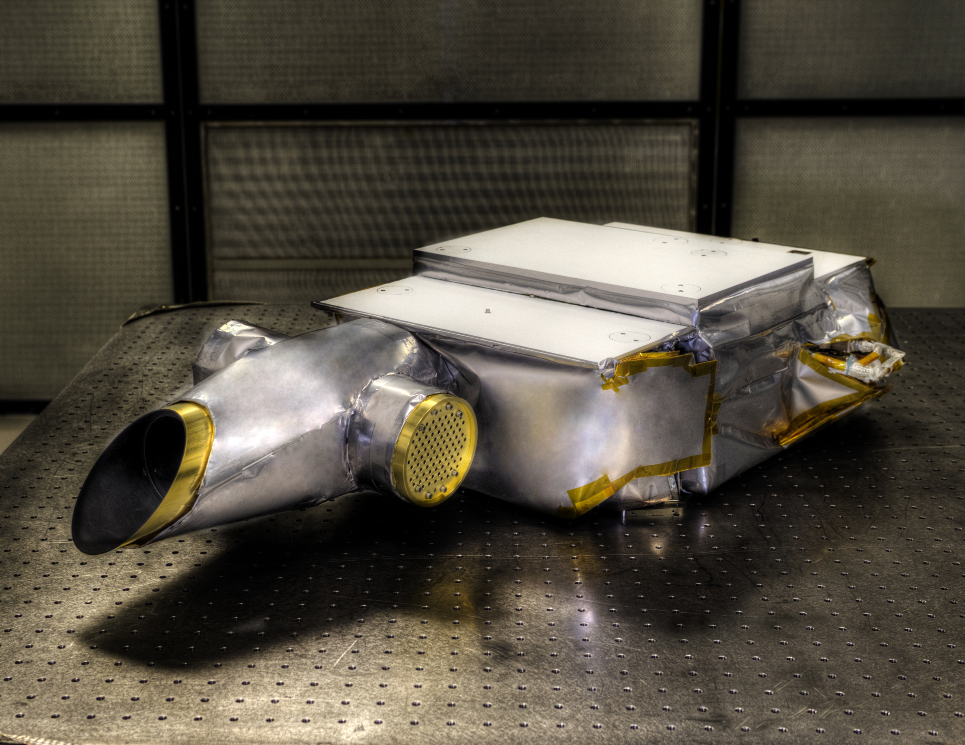 The OSIRIS-REx Visible and Infrared Spectrometer (OVIRS) will measure visible and near infrared light from the asteroid Bennu. The instrument's observations could be used to identify water and organic materials. This image shows OVIRS at NASA's Goddard Space Flight Center in Greenbelt, Maryland, where it was built, prior to shipping to Lockheed Martin Space Systems in Denver.